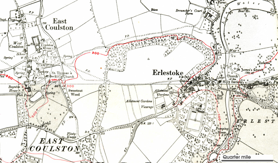 This work created by the United Kingdom Government is in the public domain. This is because it is one of the following: It is a photograph taken prior to 1 June 1957; or It was published prior to 1968; or It is an artistic work other than a photograph or engraving (e.g. a painting) which was created prior to 1968. HMSO has declared that the expiry of Crown Copyrights applies worldwide (ref: HMSO Email Reply) More information. See also Copyright and Crown copyright artistic works. This work is an Ordnance Survey map over 50 years old, which is covered by Crown Copyright which in this case expires 50 years after publication. Ordnance Survey does however ask that they be credited and that the date of publication be given. Any ancillary rights gained through the creation of the electronic version are granted as freely usable under any circumstances. This work created by the United Kingdom Government is in the public domain. This is because it is one of the following: It is a photograph taken prior to 1 June 1957; or It was published prior to 1968; or It is an artistic work other than a photograph or engraving (e.g. a painting) which was created prior to 1968. HMSO has declared that the expiry of Crown Copyrights applies worldwide (ref: HMSO Email Reply) More information. See also Copyright and Crown copyright artistic works.